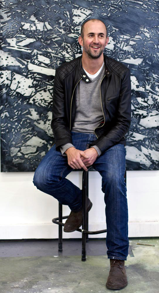 Portrait of Peter Eastman, 2012